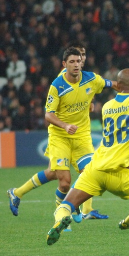 Hélio Pinto Players Of APOEL